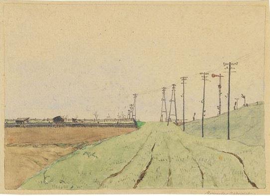 Landscape Motif (from a set of 8)